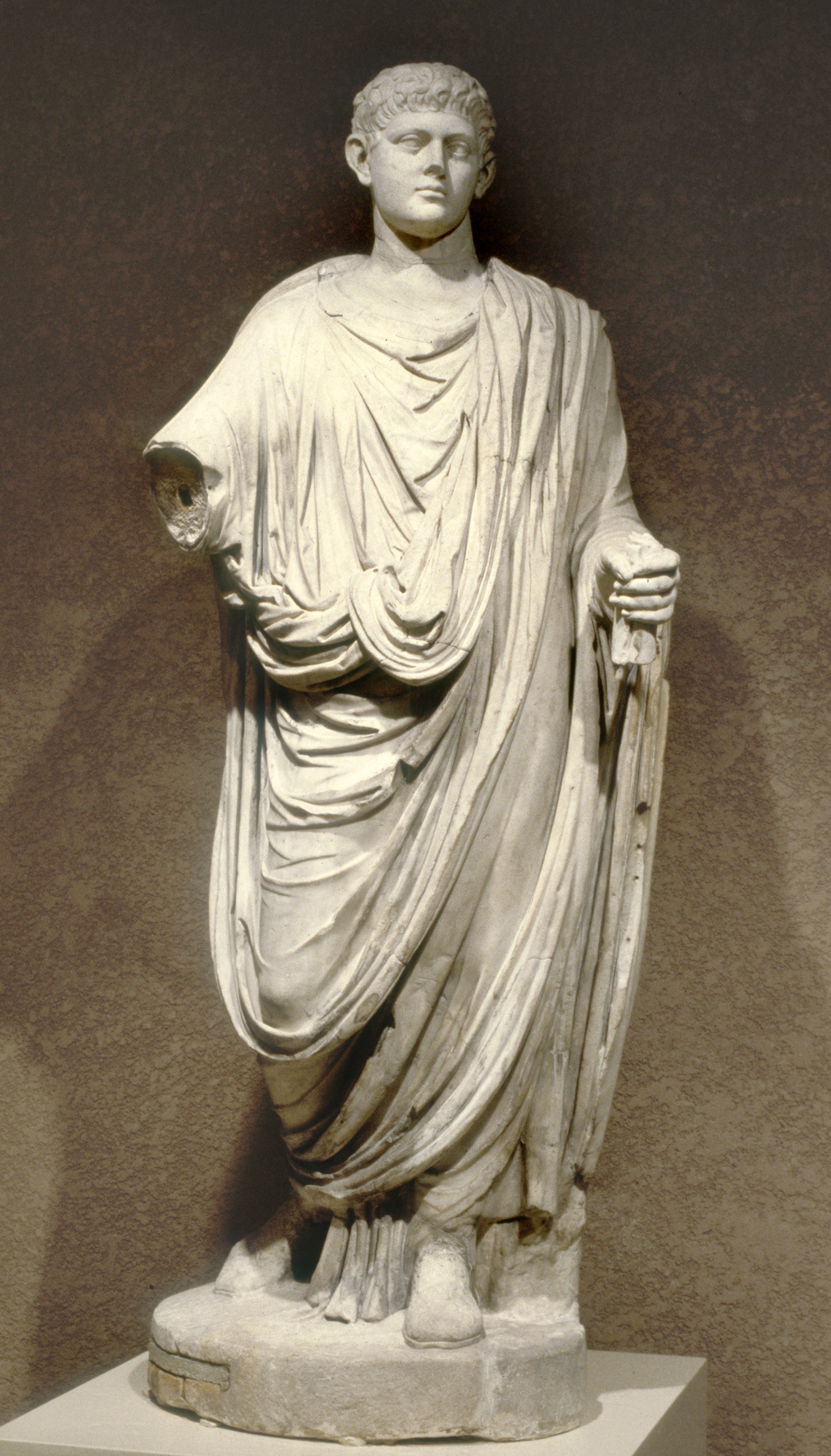 This colossal statue of an emperor wears a toga and elaborately decorated shoes that indicate the figure's high status. These details identify it as a type of honorary statue similar to those erected in the Forum of Augustus in Rome for generations, transforming the public space into a kind of imperial "Hall of Fame." The head, a portrait of Emperor Domitian (reigned AD 81-96), is likely an 18th-century restoration.